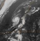 Tropical Storm Fausto at high latitude in the central Pacific Ocean